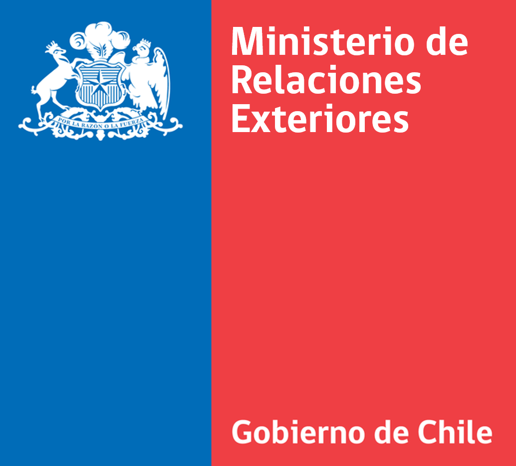 Government Logo of the Ministry of Foreign Affairs.